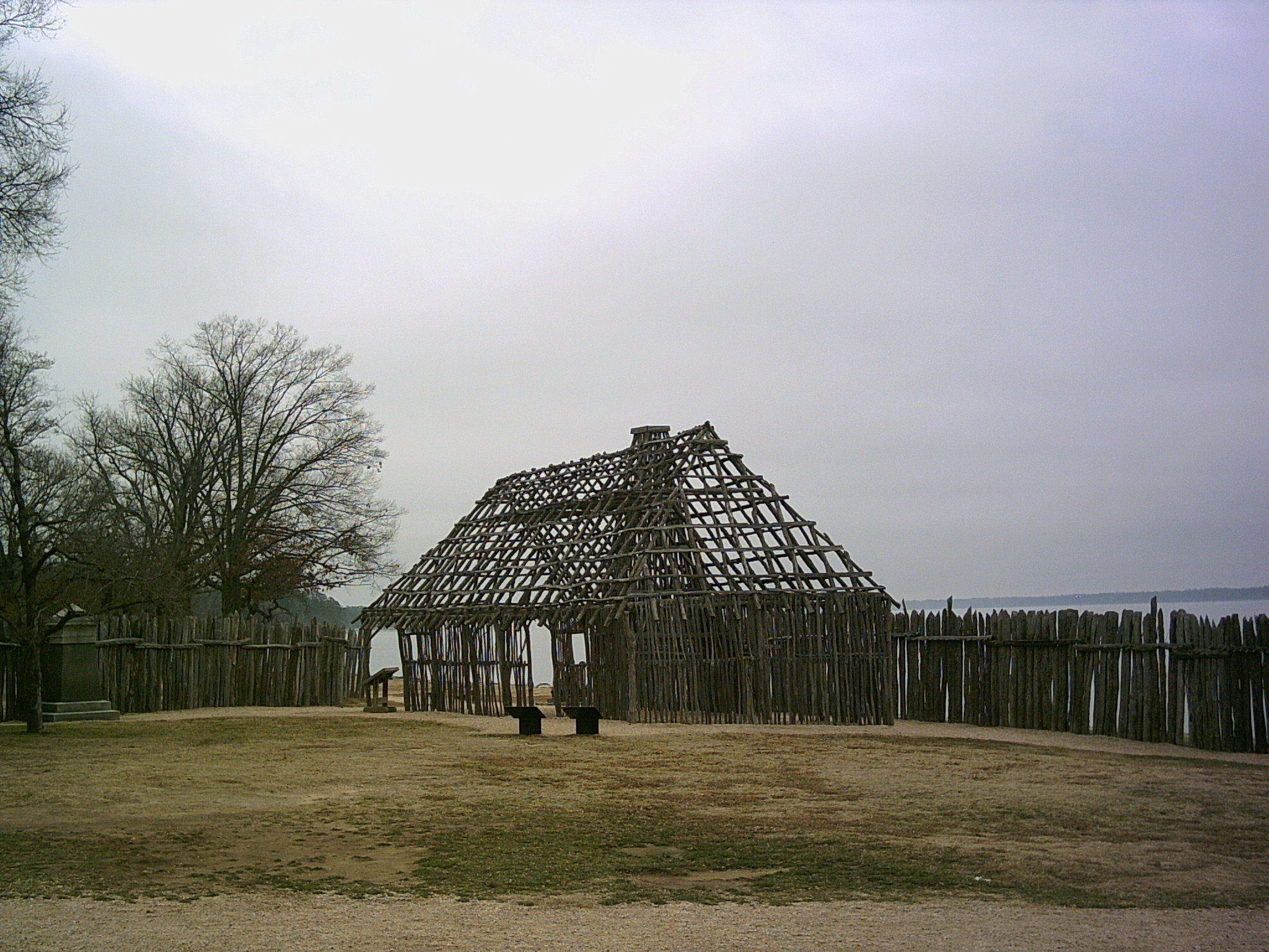 Image taken by me for Wikipedia